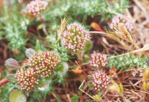 Chorizanthe valida USFWS photo, no copyright indicated